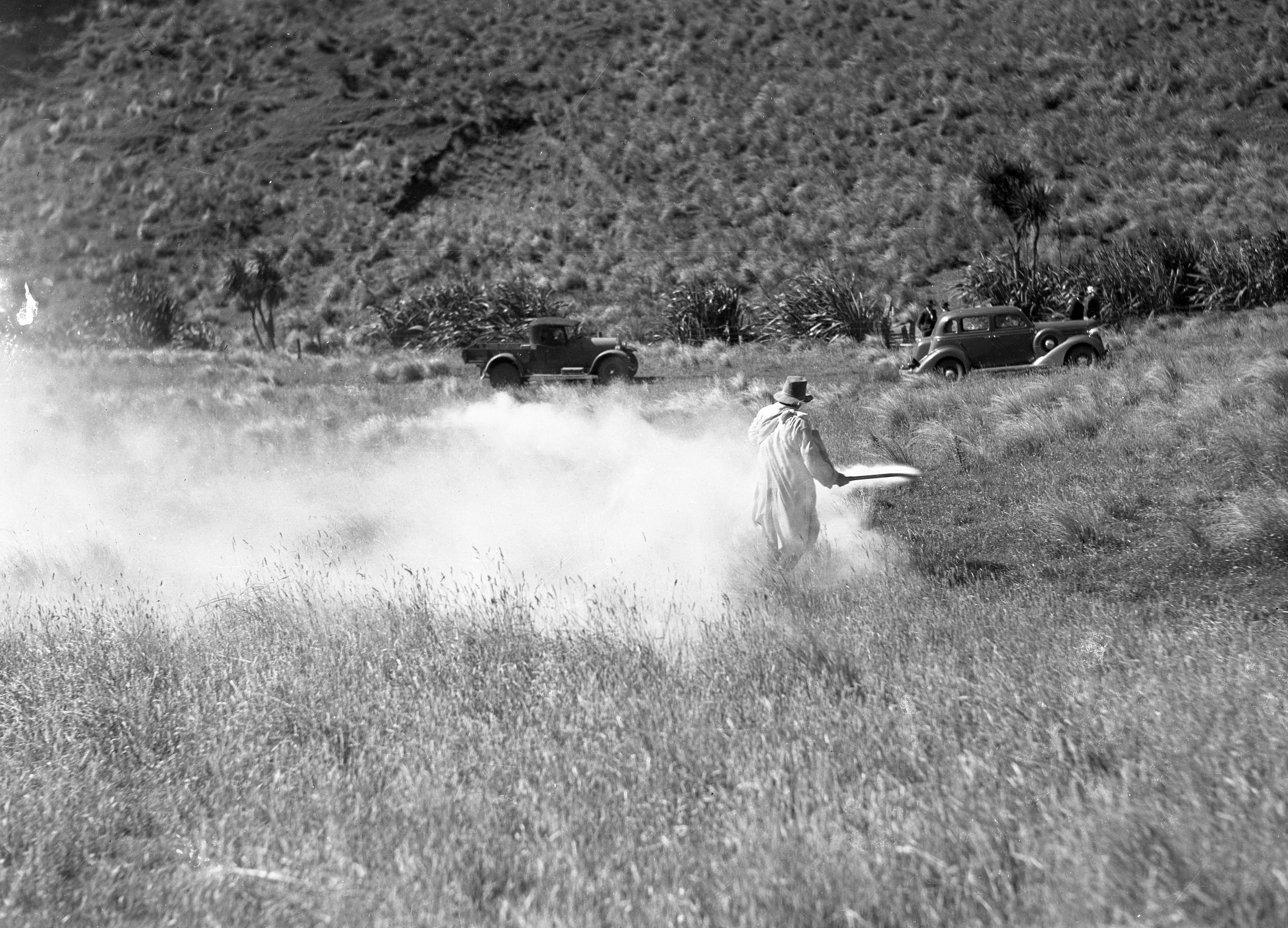 Hand top-dressing of super phosphate, Banks Peninsula, 1938.